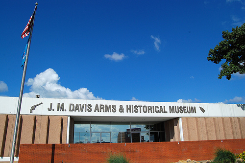 The J.M. Davis Arms & Historical Museum in Claremore Oklahoma contains the worlds largest privately owned gun collection. Over 20,000 guns and artifacts are contained in this 40,000 sq/ft museum.